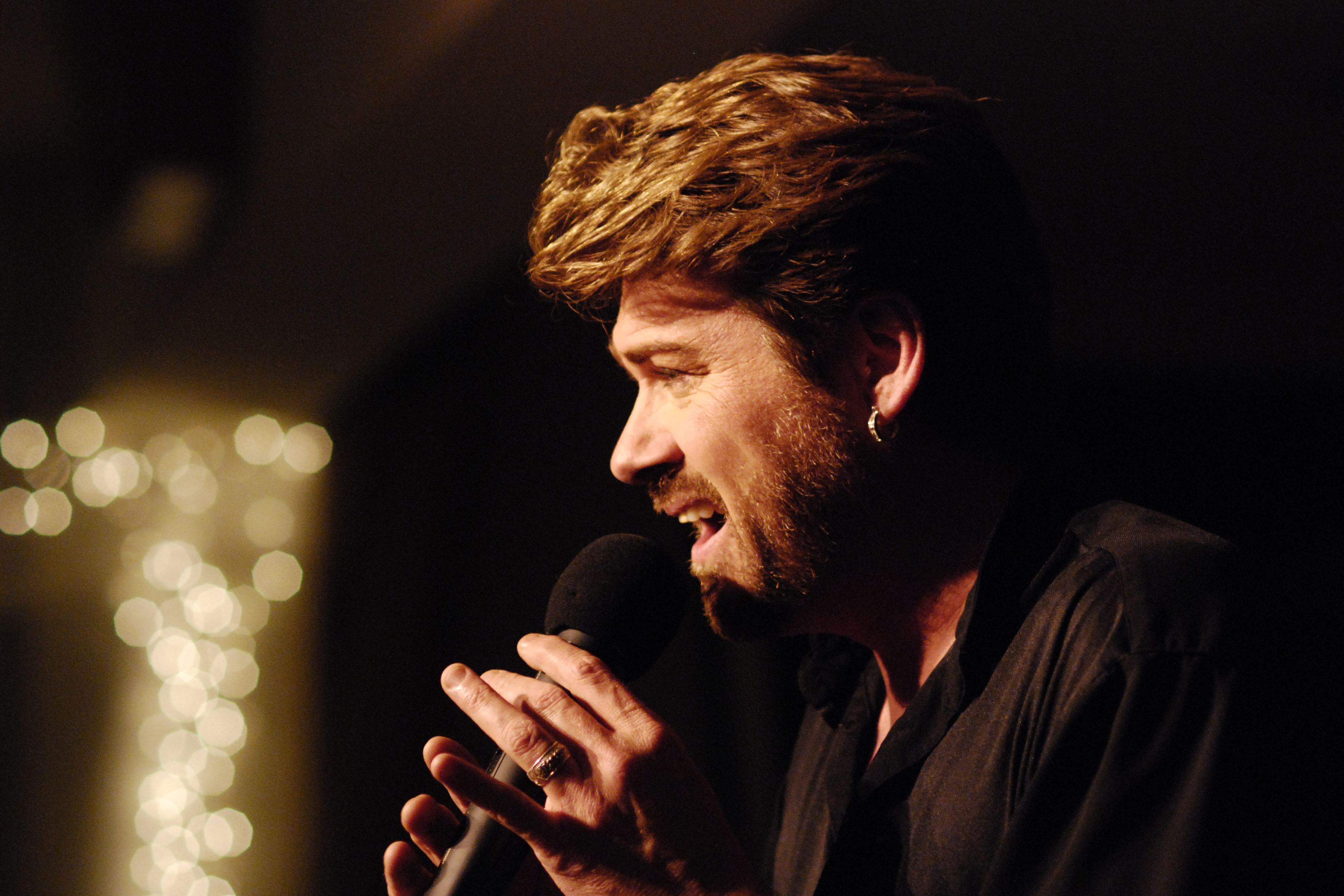 A celebrity impersonator of George Michael, singing at a nightclub.